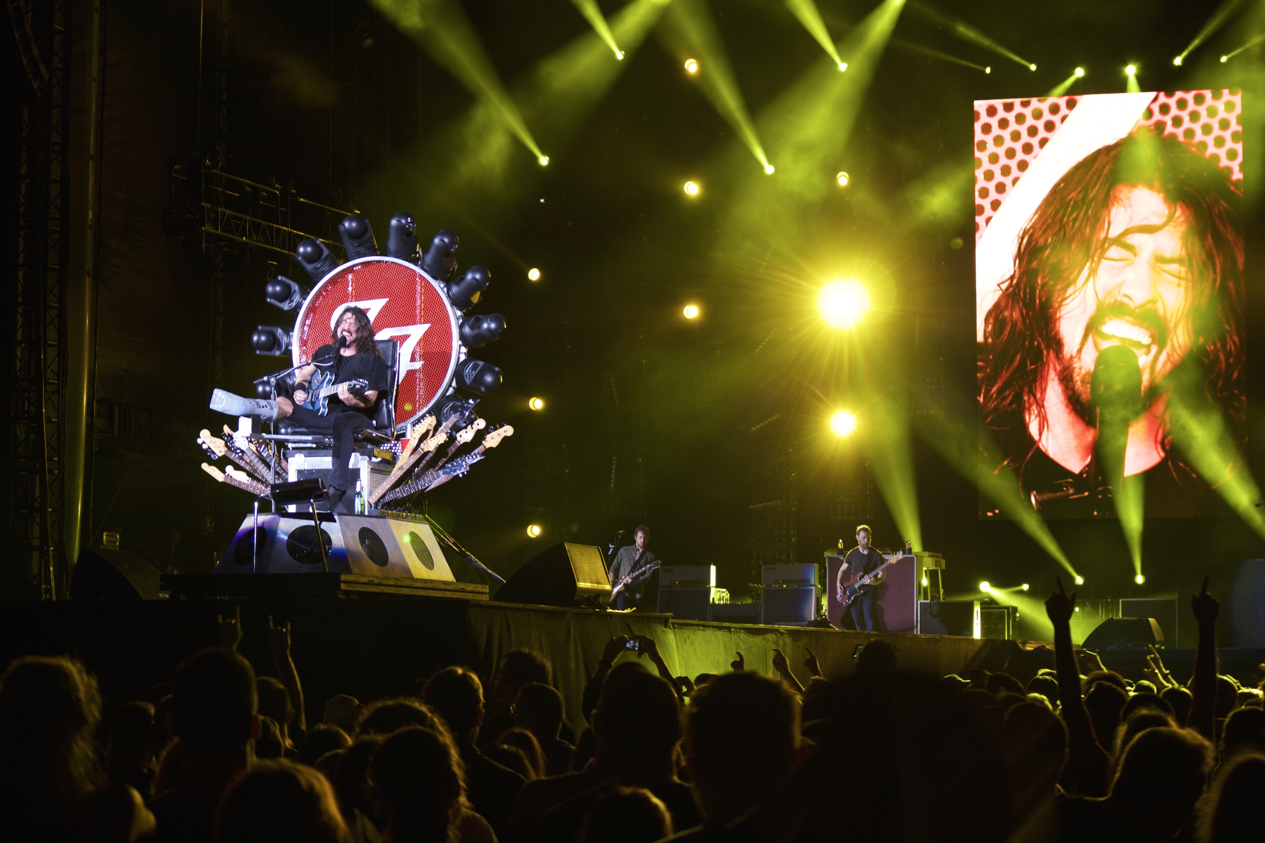 Foo Fighters performing at Fenway Park in Boston, MA on July 18, 2015.